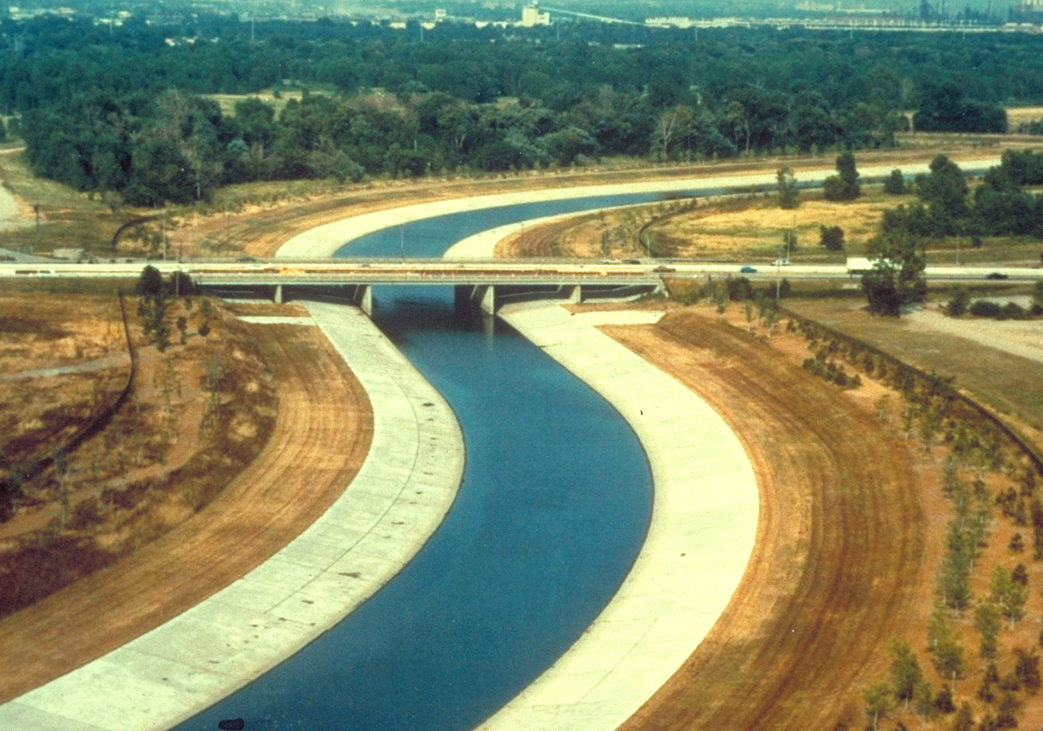 River Rouge in Dearborn, Michigan, USA. The U.S. Army Corps of Engineers has channelized the river as a flood control project. The view in the picture appears to be looking west across the Southfield Freeway, M-39.